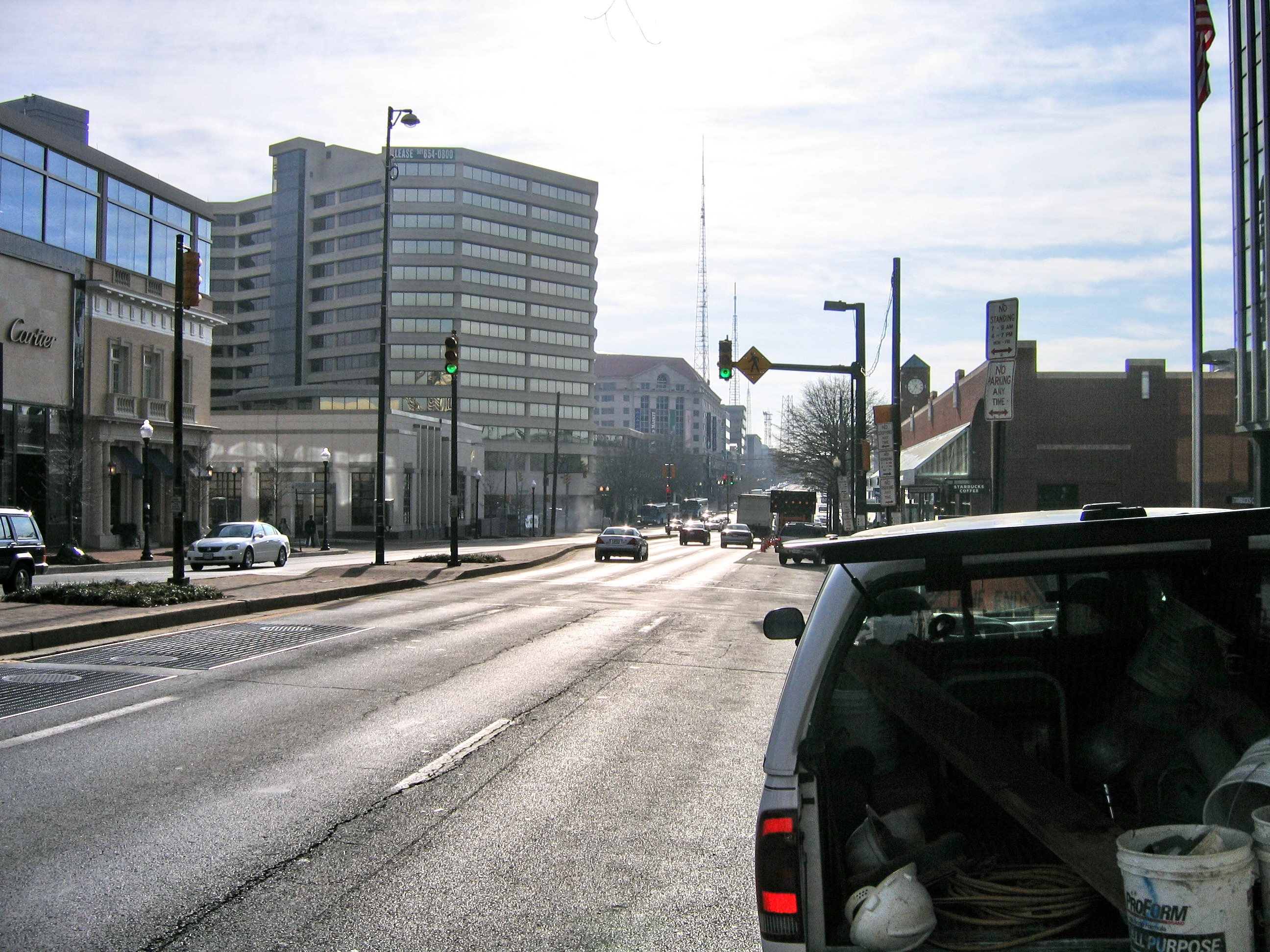 MD 355 (Wisconsin Avenue) between South Park Avenue and Willard Avenue, Friendship Heights / Friendship Village, MD, USA